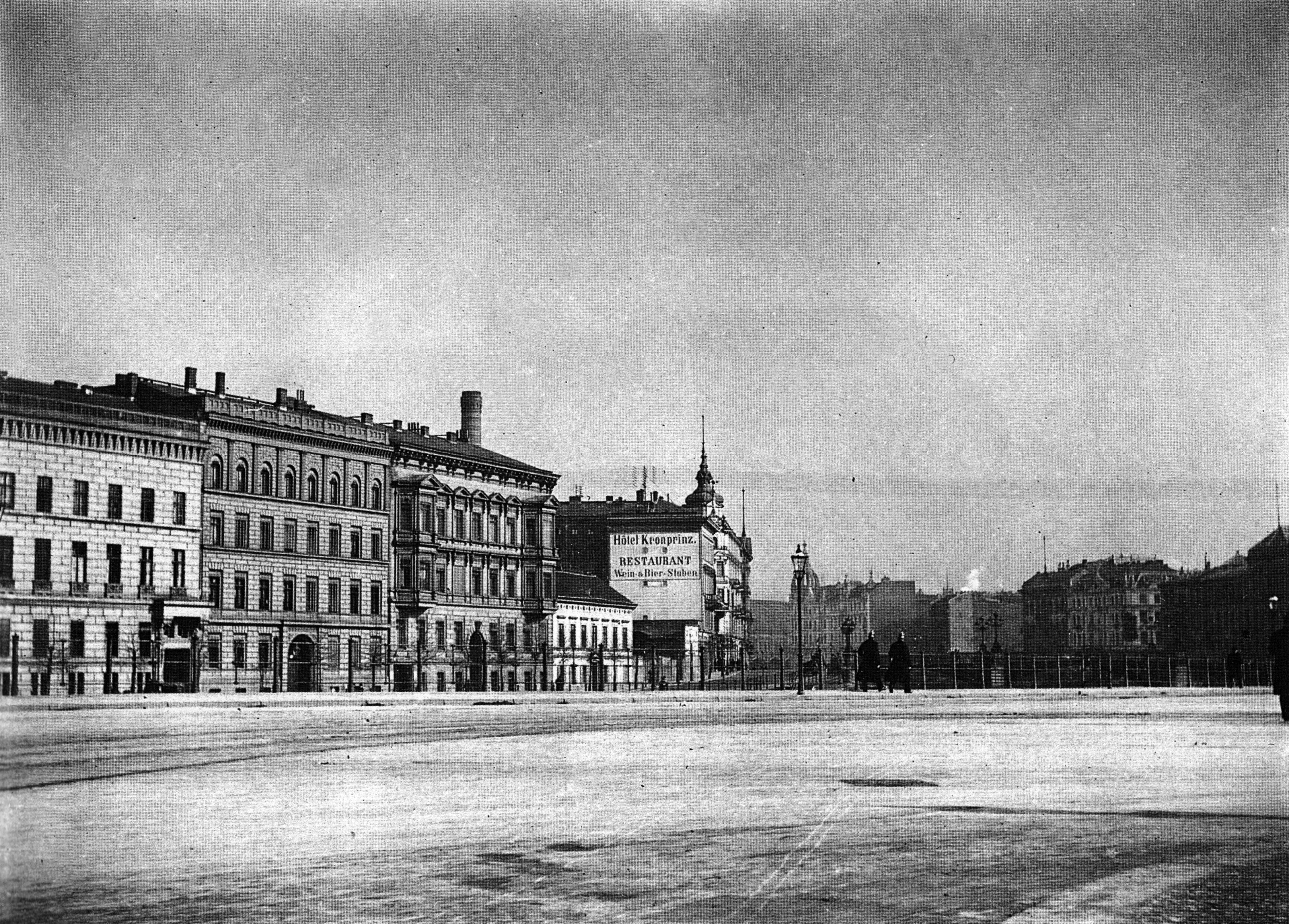 The Schiffbauerdamm (“ship builders dike”) on the edge of Berlin's Friedrich-Wilhelm-Stadt (now in Mitte district).